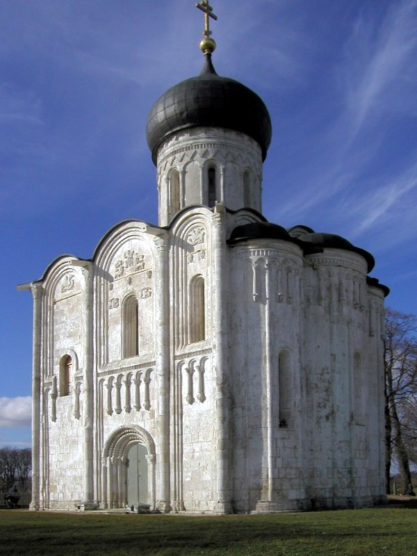 Church of Pokrova